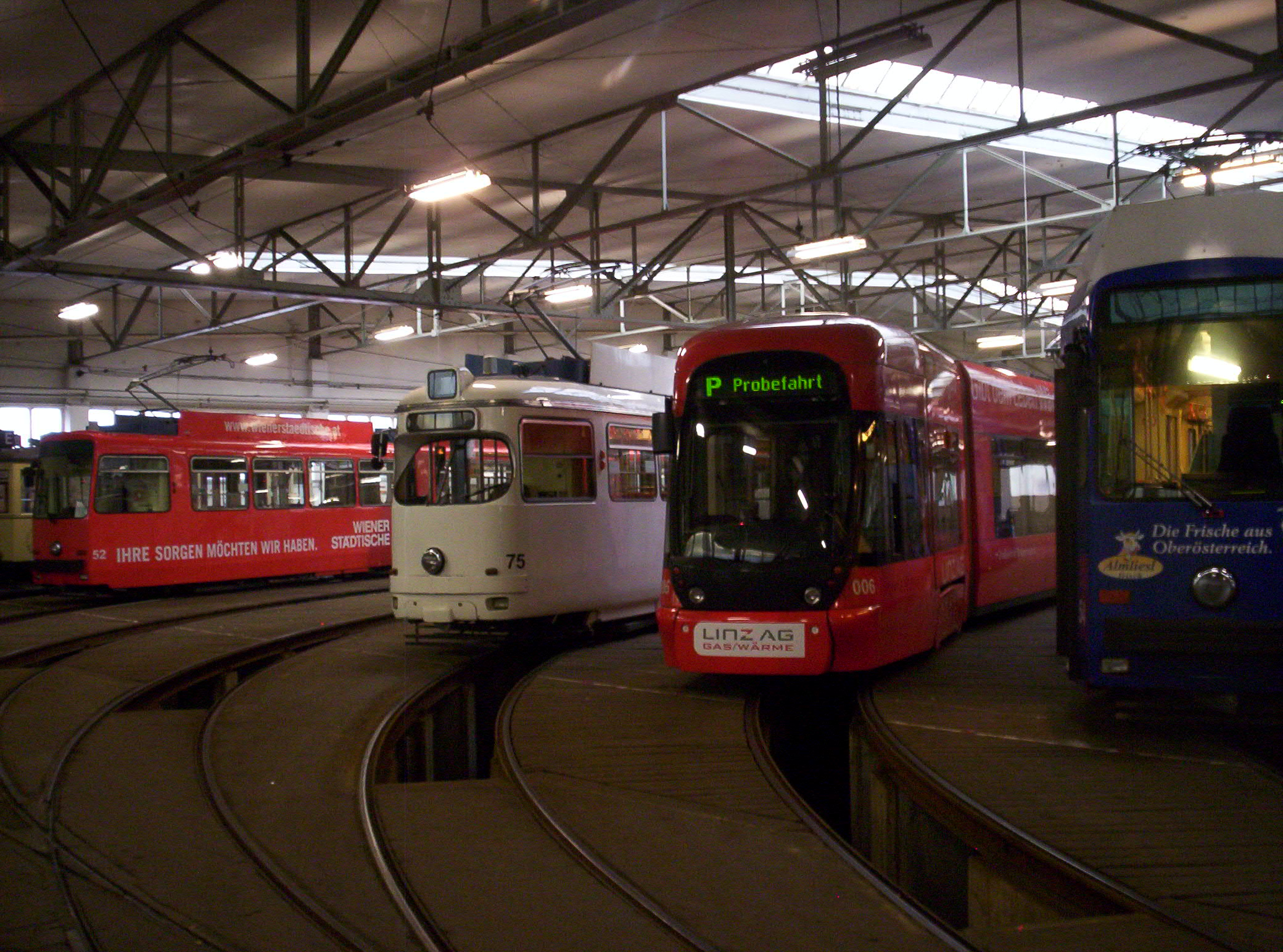 Tram depot in Linz Other pictures: metros.hu